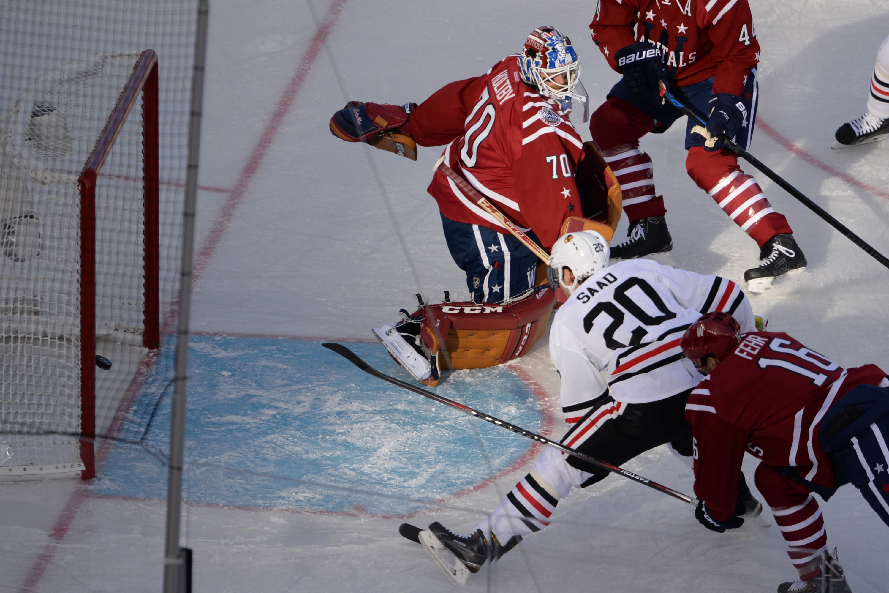 Chicago’s Brandon Saad, bottom front, ties the game at 2-2 behind Washington goalie Braden Holtby ‘s back during the 2015 Winter Classic at Nationals Park in Washington D.C. Jan. 1, 2015. The Washington Capitals scored with 12.9 seconds left on the clock to beat the Chicago Blackhawks 3-2. (DoD News photo by EJ Hersom)